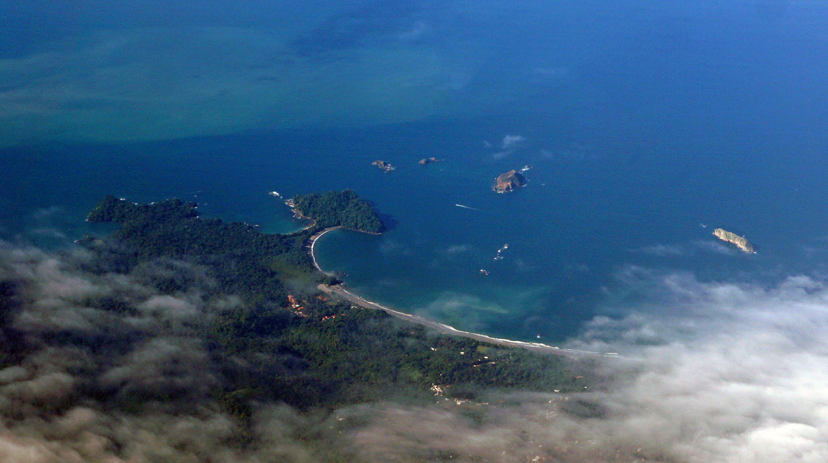 Aerial view of Manuel Antonio National Park, Costa Rica